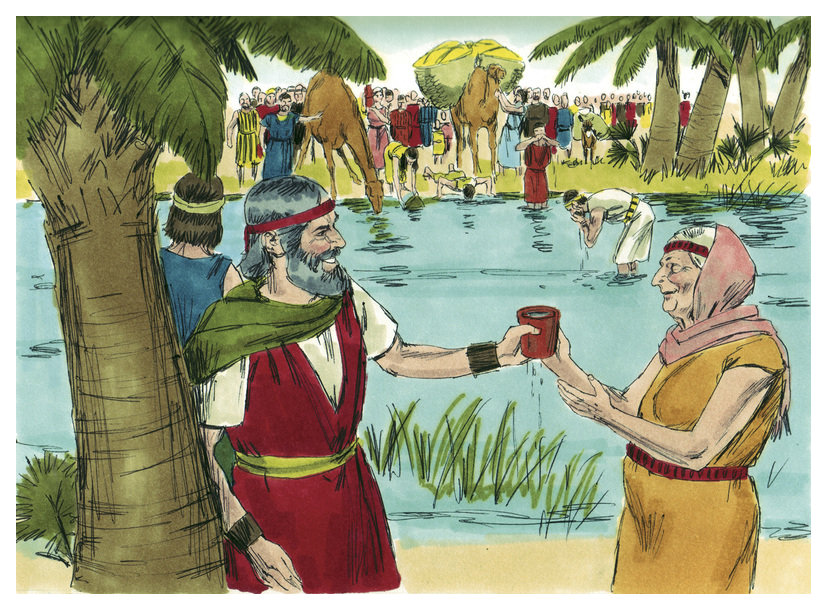 Biblical illustration of Book of Exodus Chapter 16